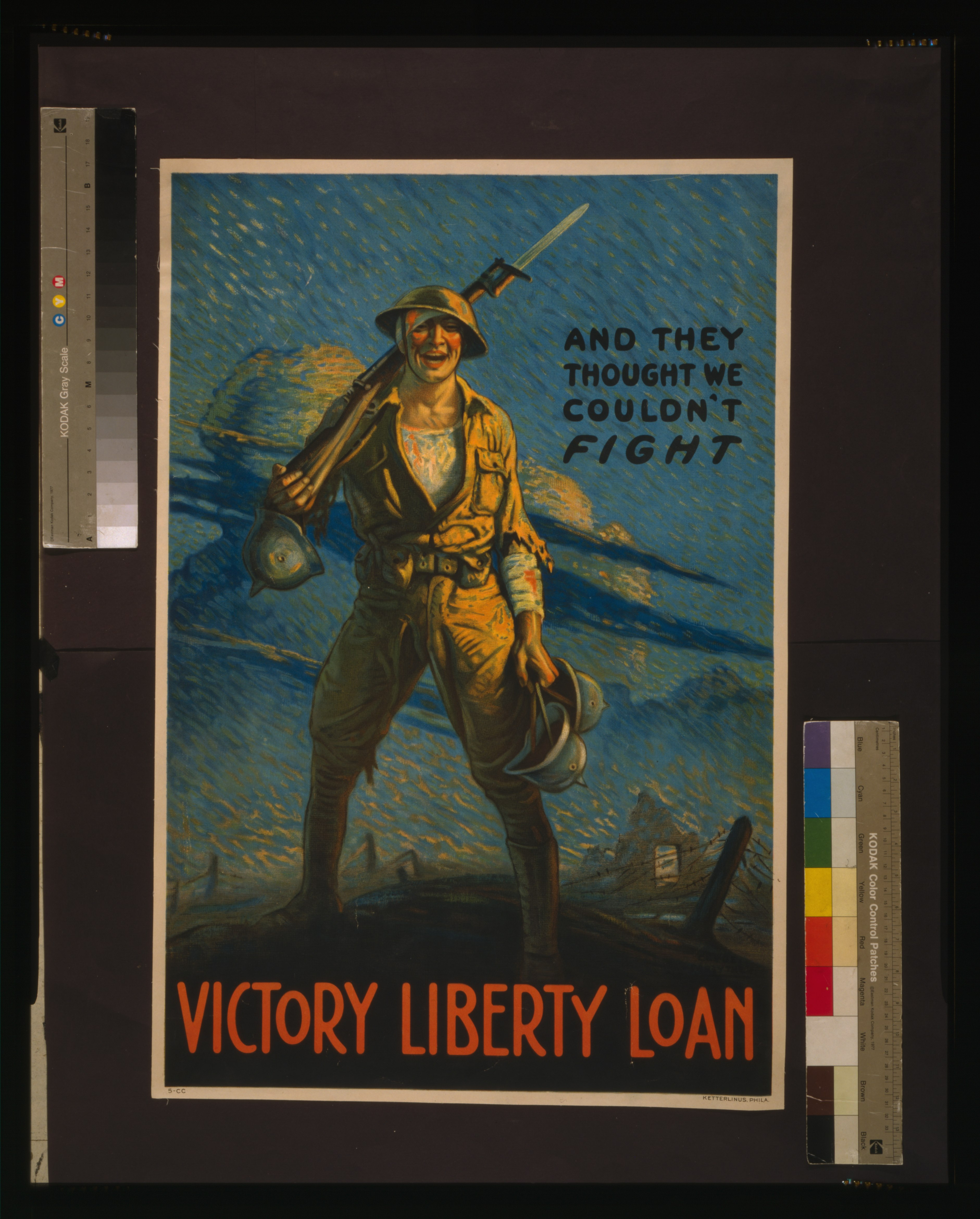 Title: And they thought we couldn't fight - Victory Liberty Loan Abstract: Poster showing a wounded soldier on the battlefield, carrying several German helmets as trophies. Physical description: 1 print (poster) : lithograph, color ; 76 x 51 cm. Notes: Clyde Forsythe ; Ketterlinus, Phila.; No. 5-CC.